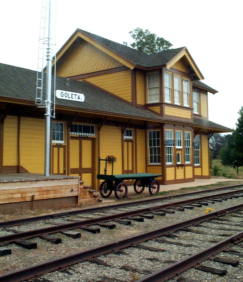 The historic Goleta Depot, at the Lake Los Carneros Natural and Historical Preserve, in Goleta, Santa Barbara County, California. Taken by Gary Coombs in 2006.